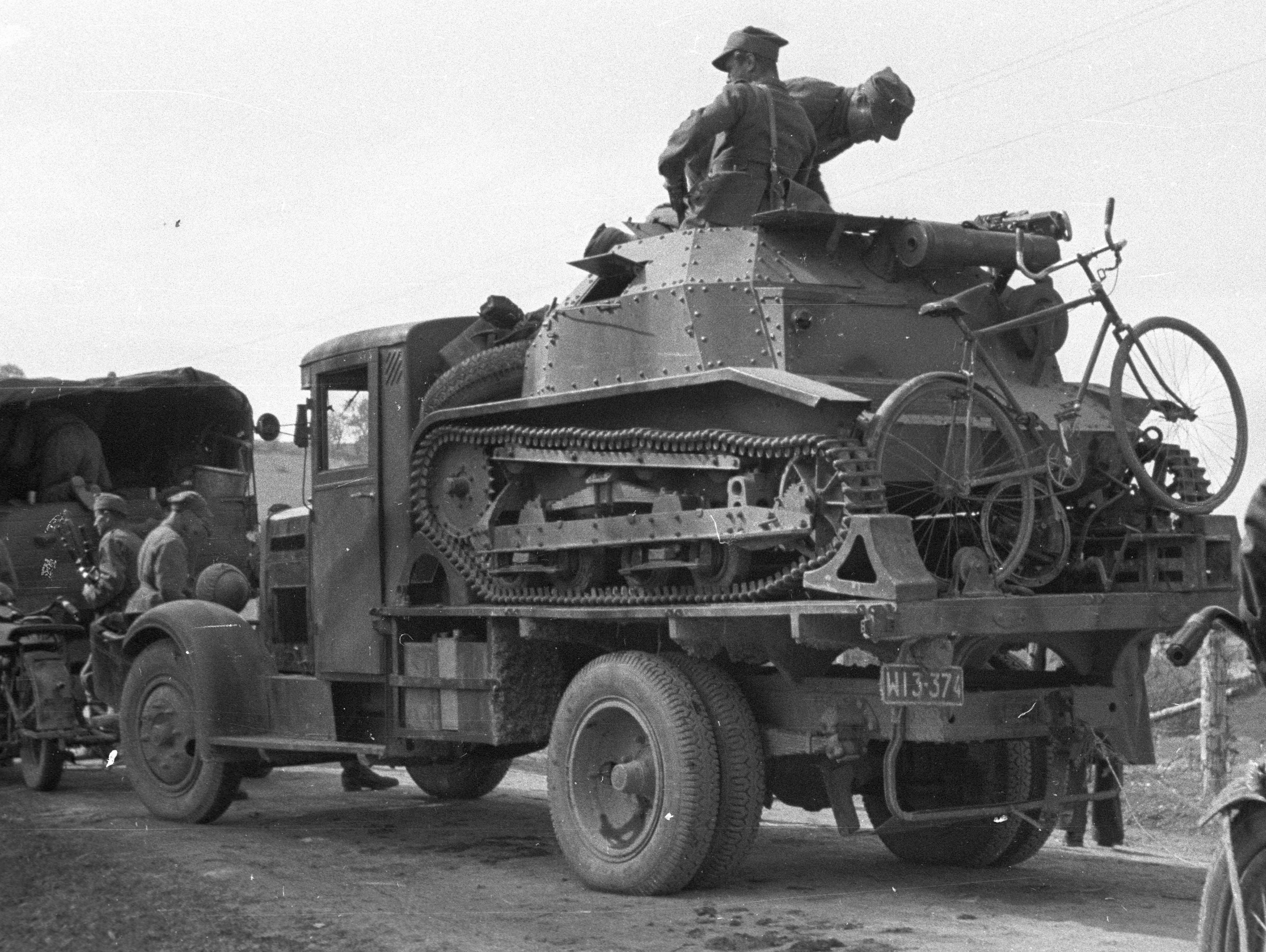 Tags: commercial vehicle, tank, bicycle, number plate, Polish soldier, Polish brand, motorcycle, convoy